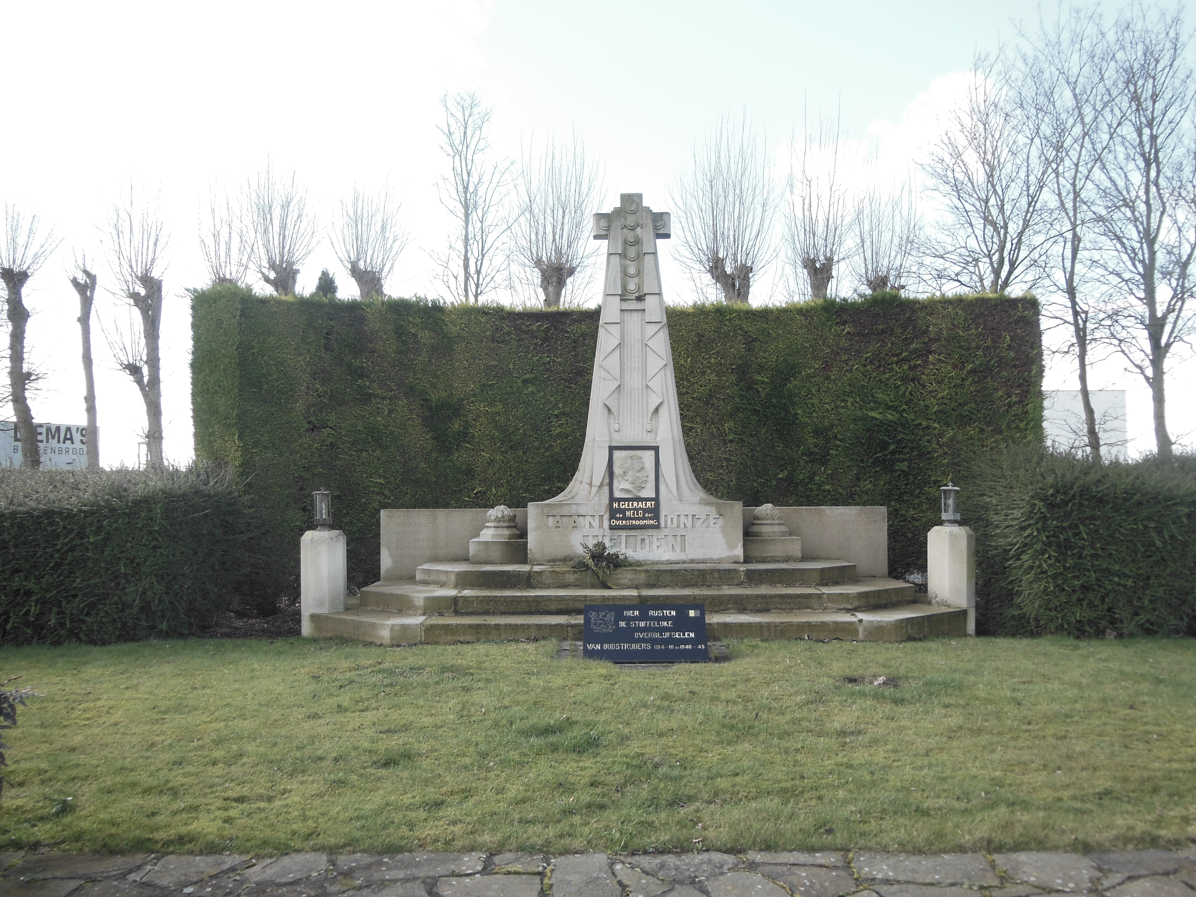 Memorial made of white stone with a column, crowned with a cross, and on the rectangular pedestal, the portrait bust of Hendrik Geeraert